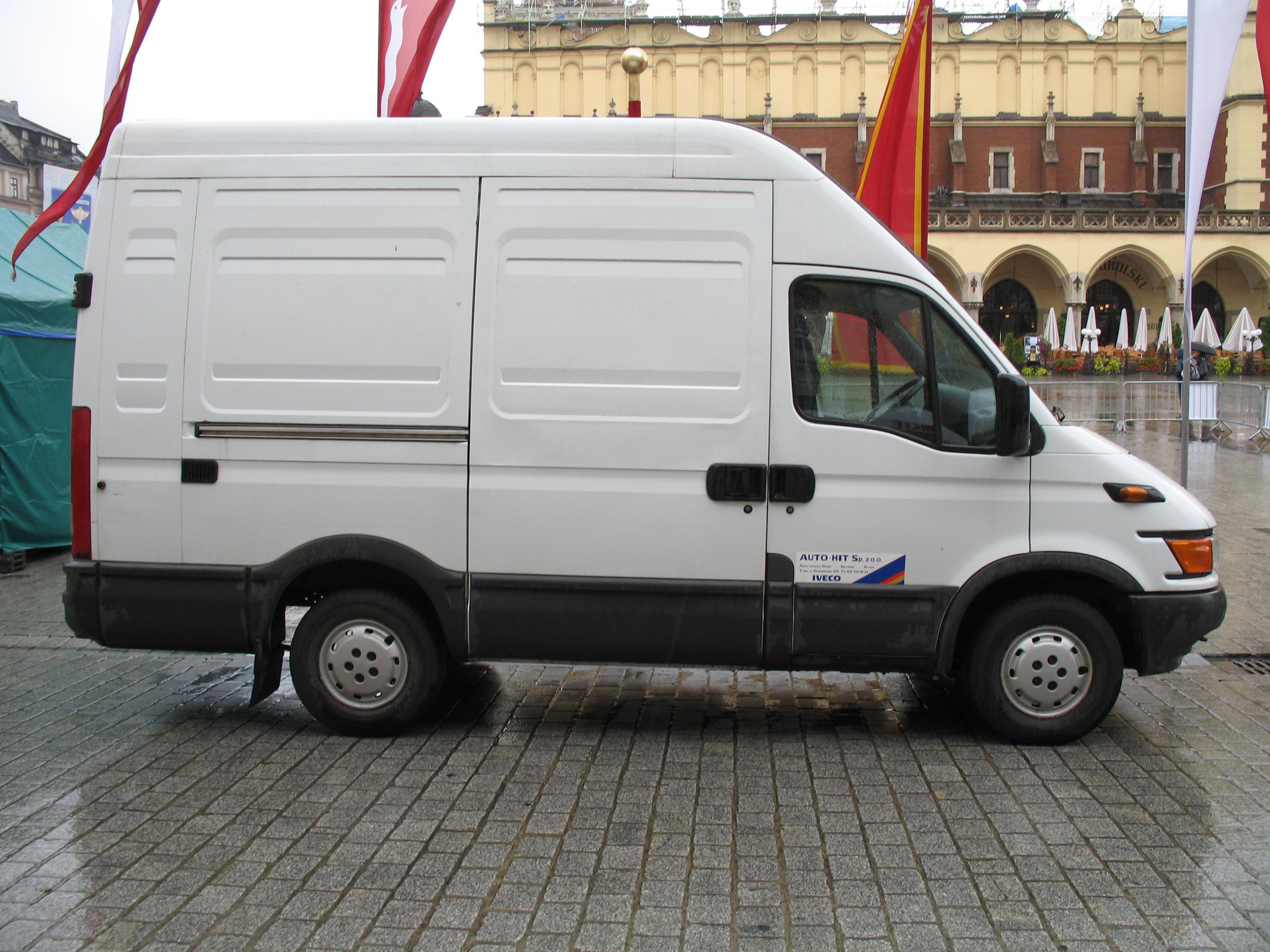 Iveco Daily 35S11 in Kraków, Poland. Van of the Year 2000.